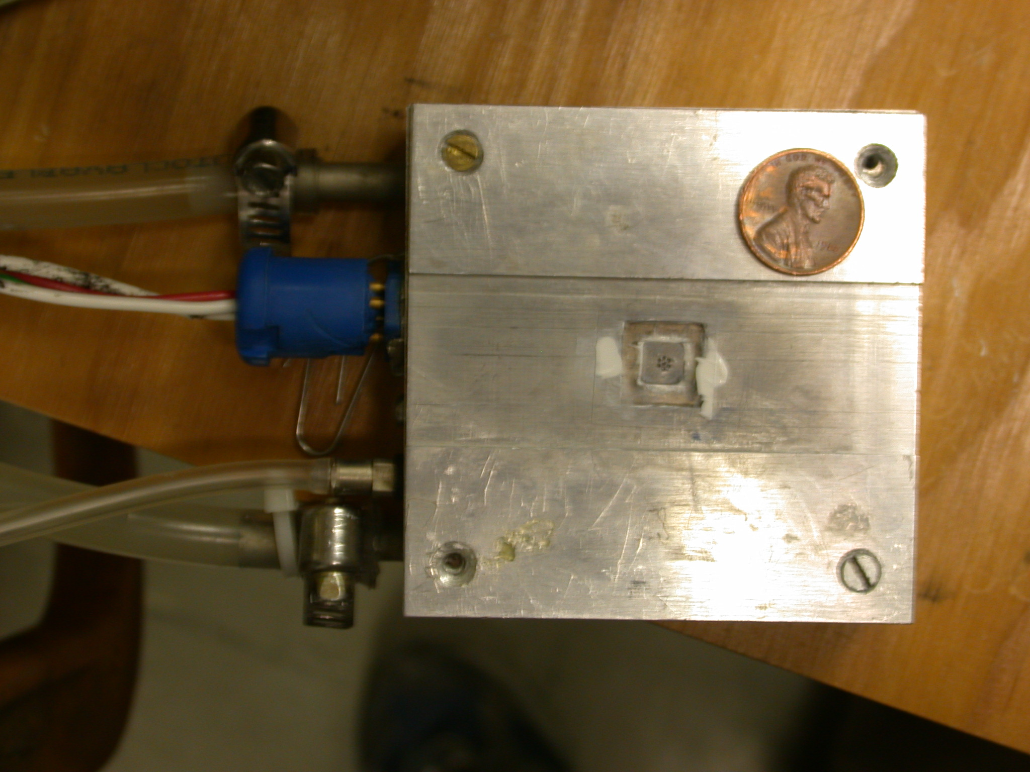 A closeup of the Clifton nanoliter osmometer cooling stage showing the water coolant circuit (left top and bottom), the controller cable (left blue) and the air inlet (second from bottom on left). The sample holder is positioned on the stage under a glass coverslip.